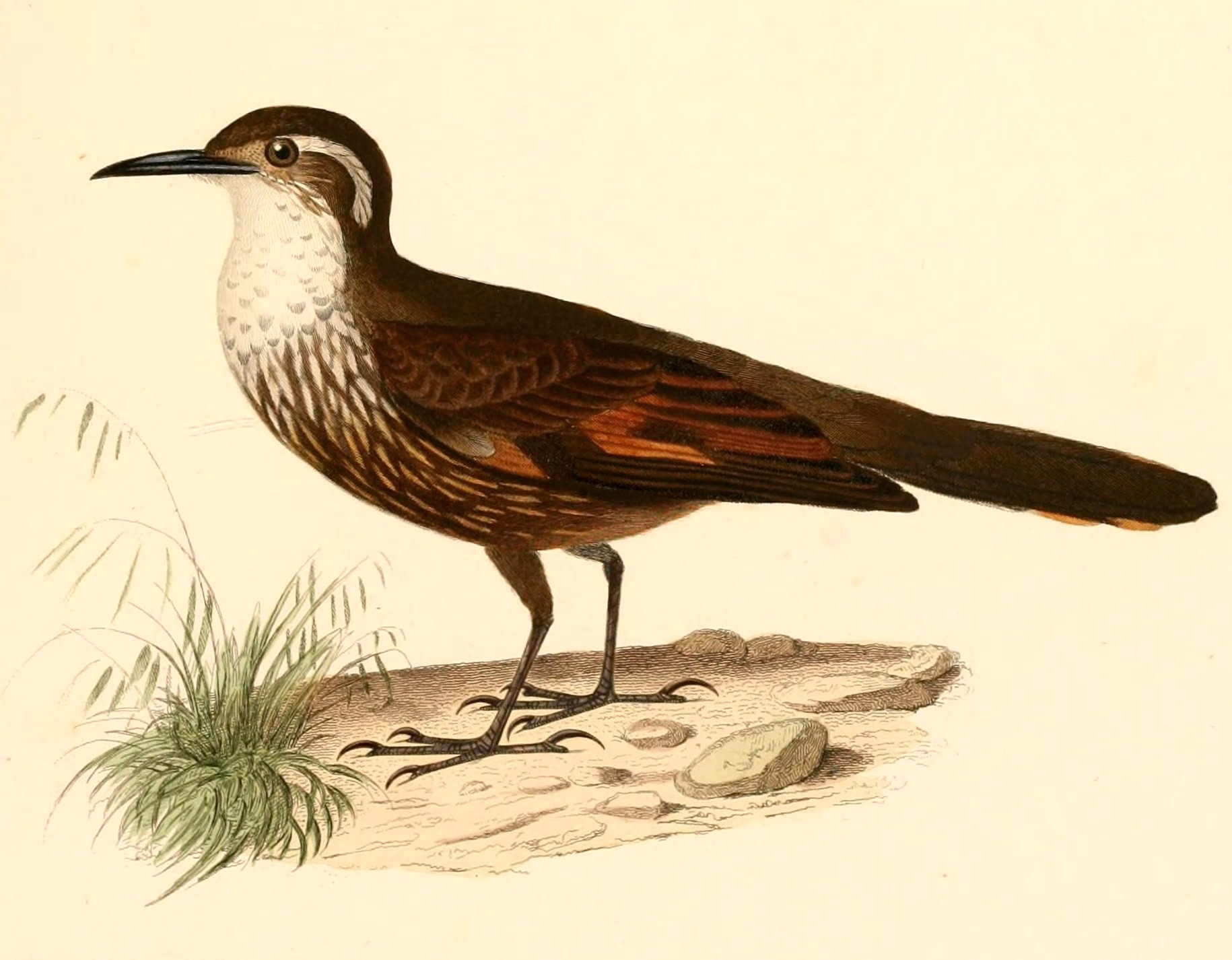 « Uppucerthia nigrofumosa » = Cinclodes nigrofumosus (Chilean Seaside Cinclodes)